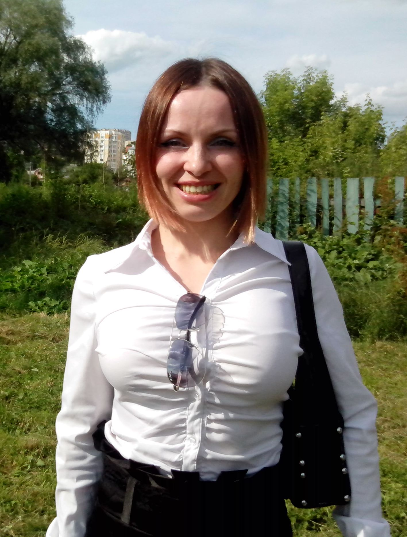 Iryna Merleni, Olympic gold medalist. 2014, Khmelnytskyi